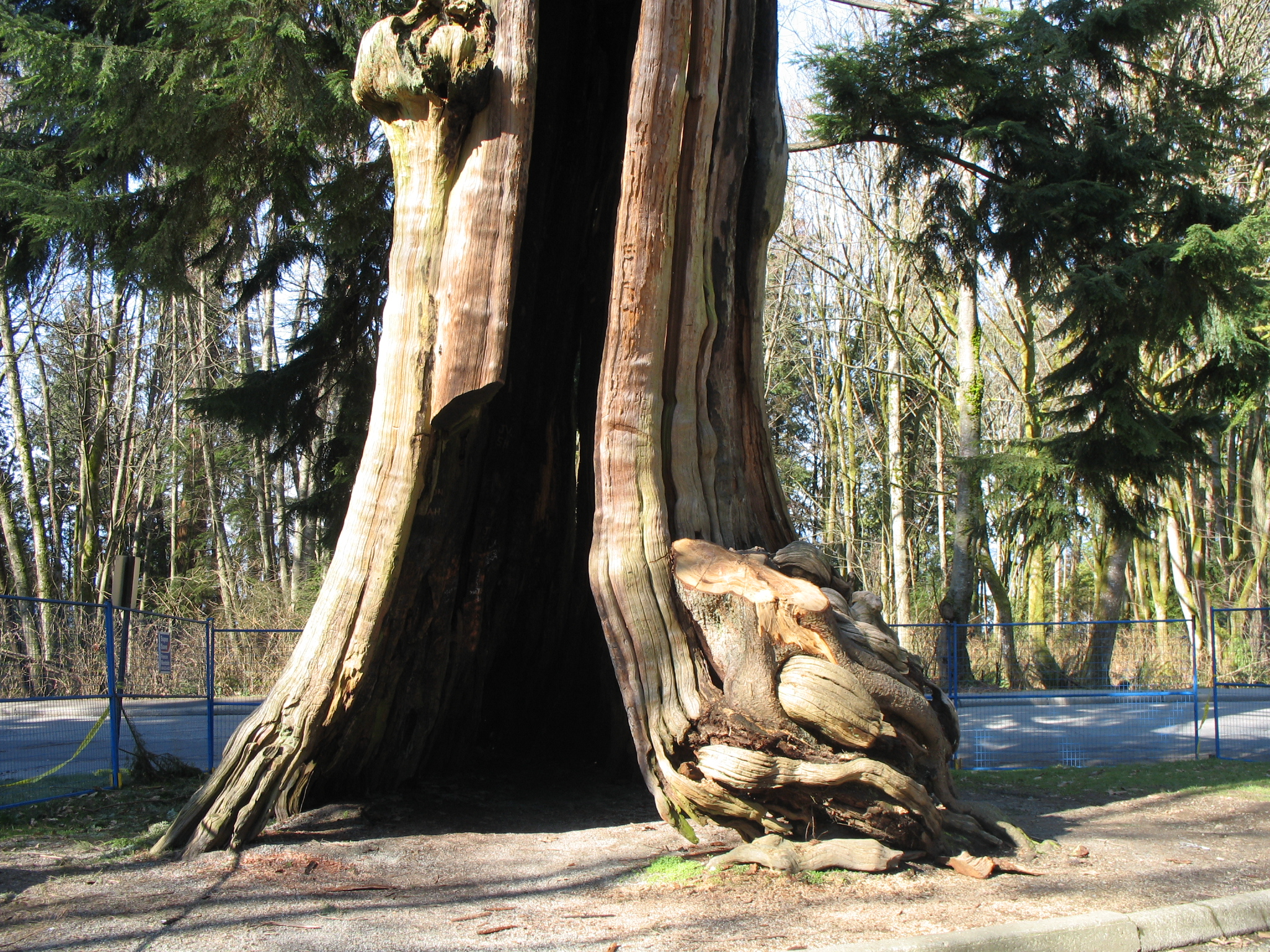 The famous Hollow Tree at Stanley Park in Vancouver, British Columbia